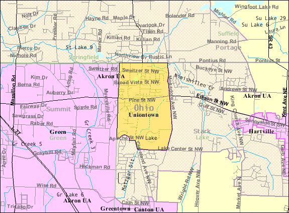 Map of Uniontown, a census-designated place (CDP) in Stark County, Ohio, United States, with its boundaries at the time of the 2000 census.